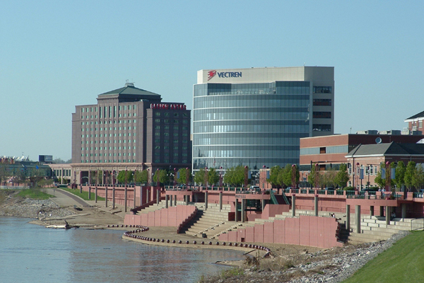 Original photograph with free documentation license.